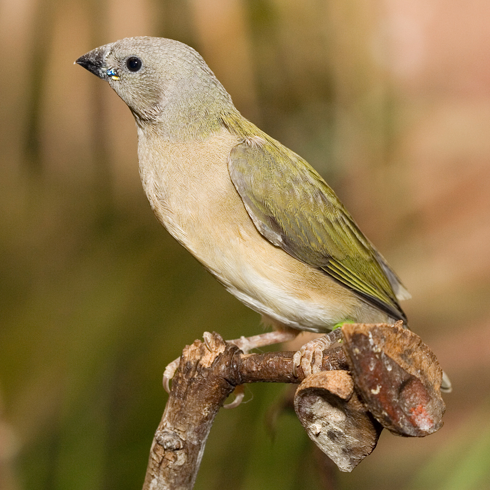 Xoung Gouldian Finch (first day out of the nest